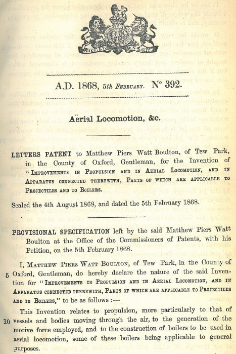 Boulton aileron patent, No. 392, 1868 - p. 1, cover page